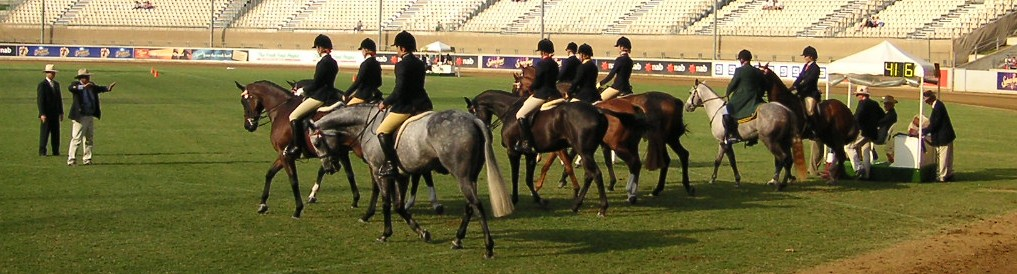 Sydney Royal Easter Show